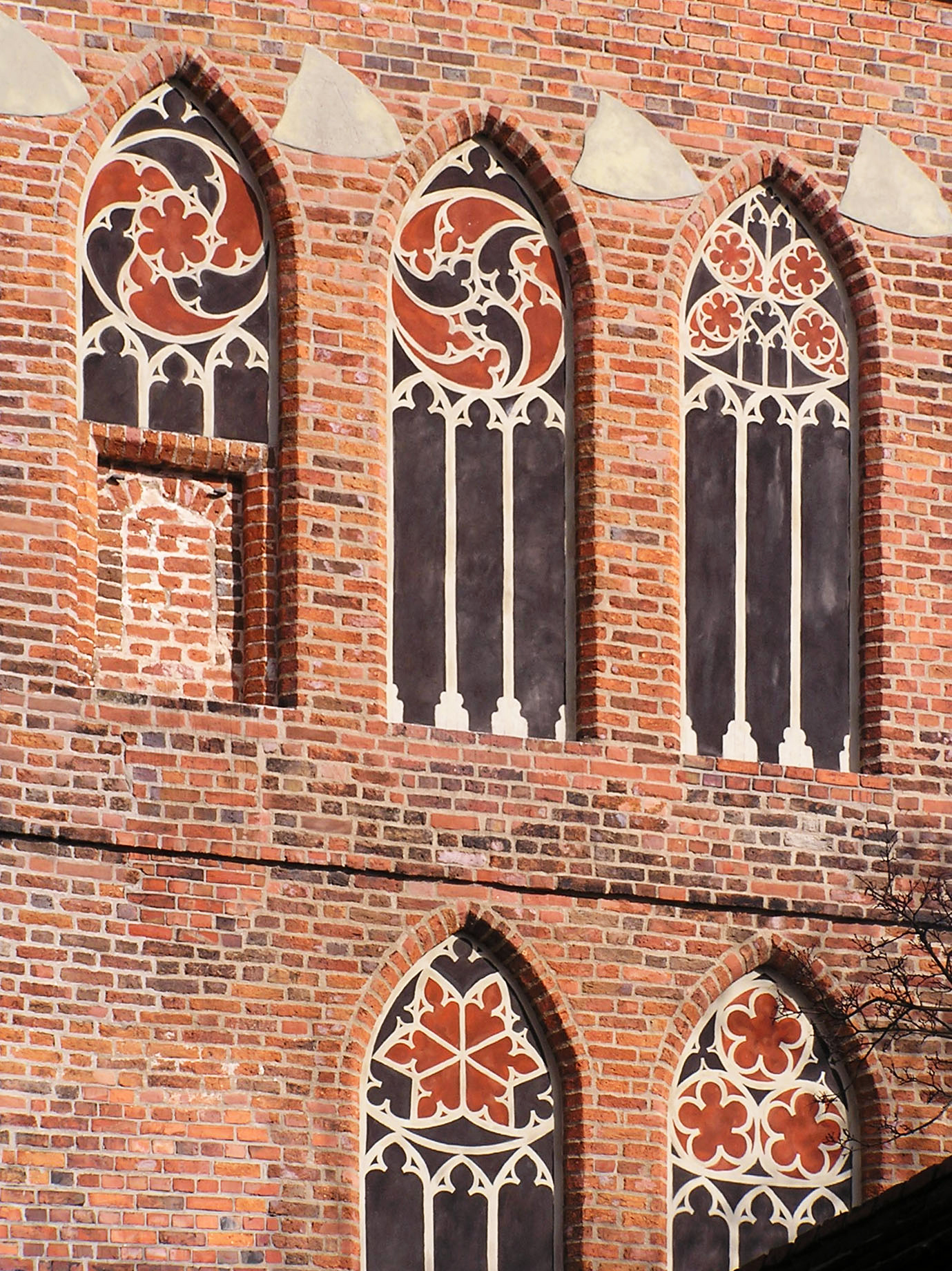 Toruń, Gołębnik Watchtower (corrected perspective)